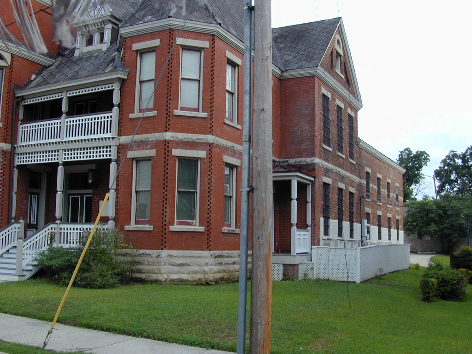 Natchez Old Prison